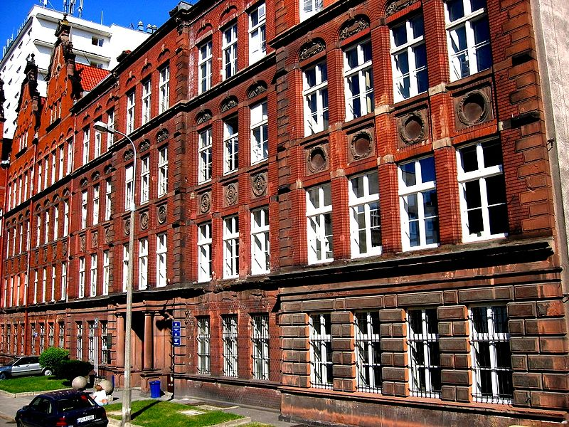 Gdańsk, Poland, Szkoły Victoria School. Today this is one with several buildings of Faculty of Biology of Gdańsk University. At Kładki 24 Street.